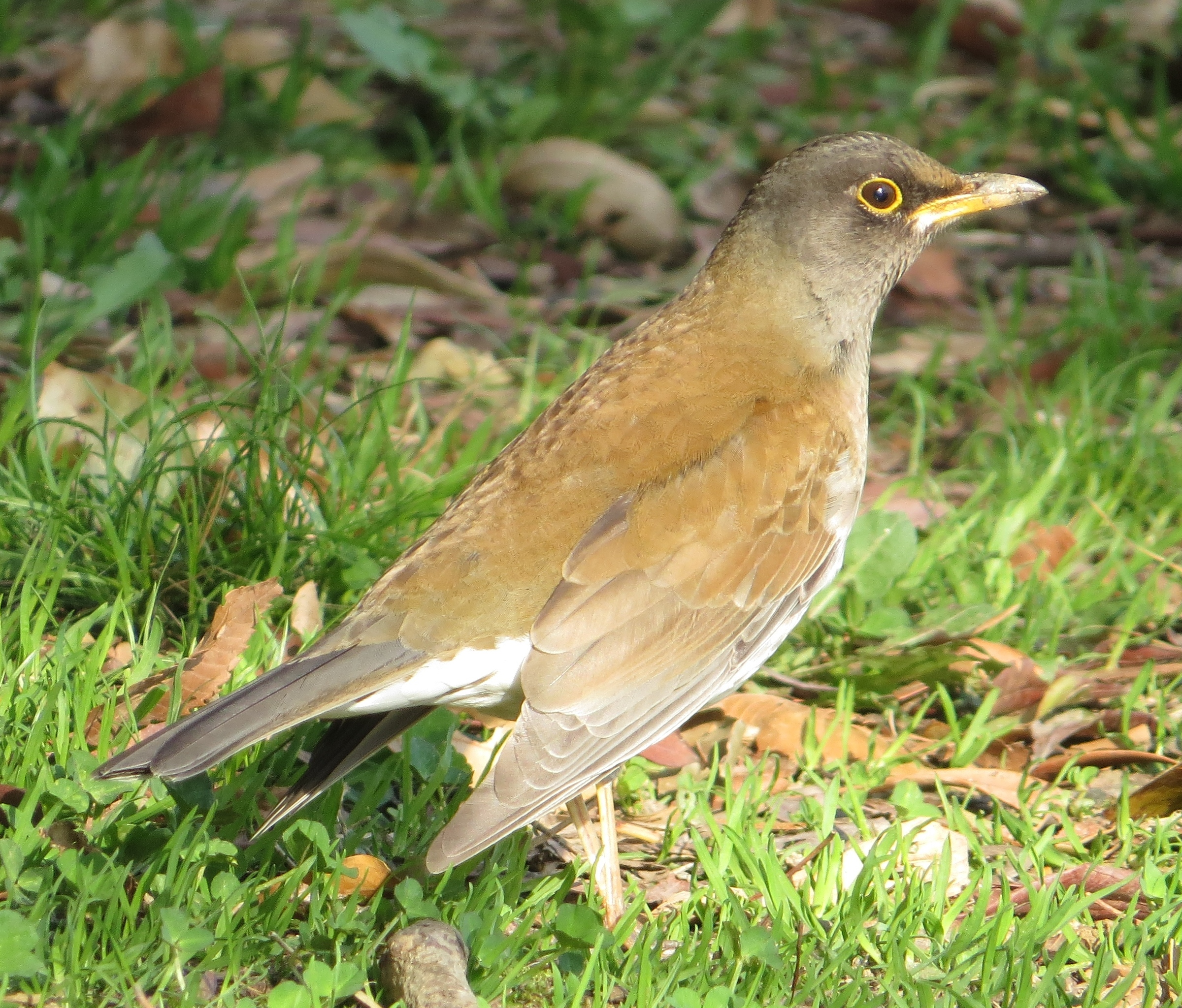 Pale Thrush (Turdus pallidus) in Japan.